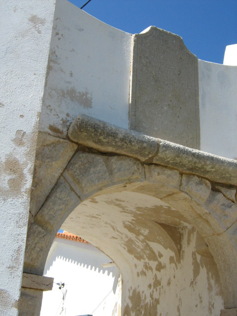 The exterior of the gate into the former small fort at Carvoeiro (Lagoa), Algarve, Portugal, with plaque.